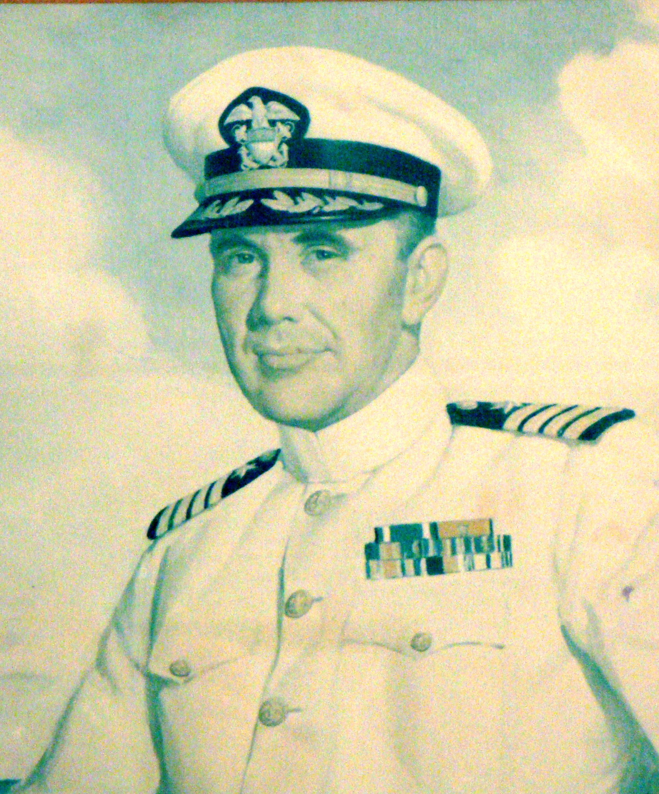 Captain A Winfield Chapin, U.S. Navy who, in October 1943, established the American Naval Base at Penarth Docks, South Wales (now Penarth Marina) in preparation for D-Day Invasion and and the Normandy Landings of WW2.